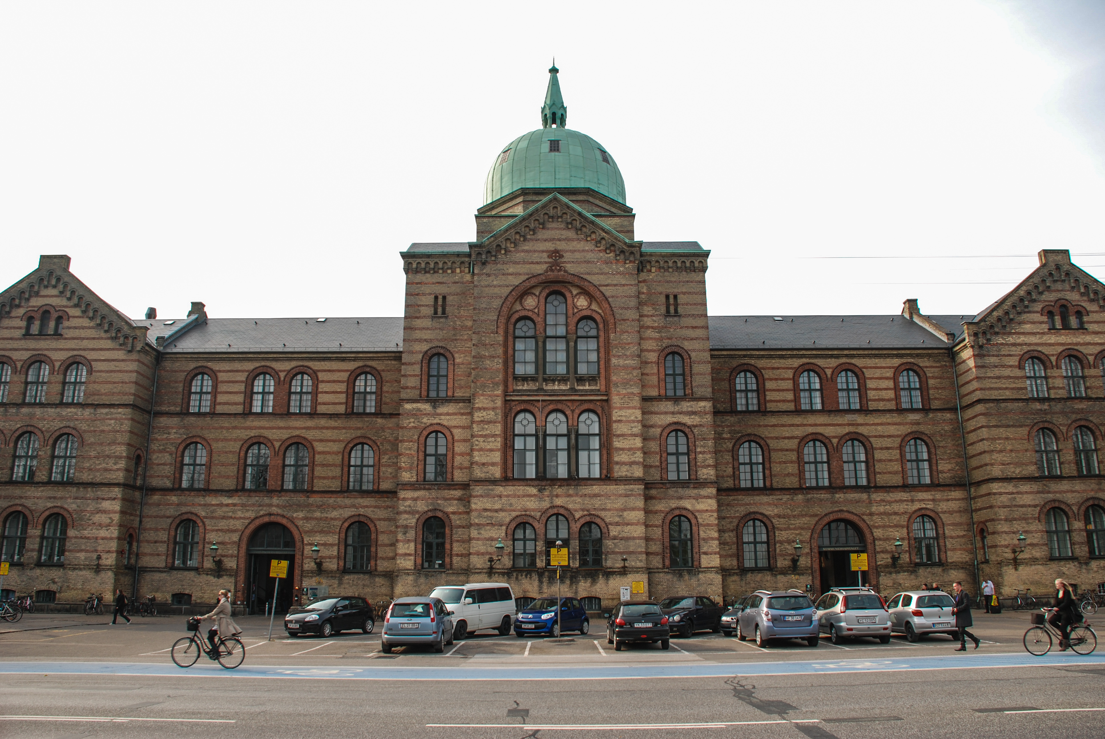 The former Kommunehospital (Municipal Hospital) in Copenhagen, Denmark.